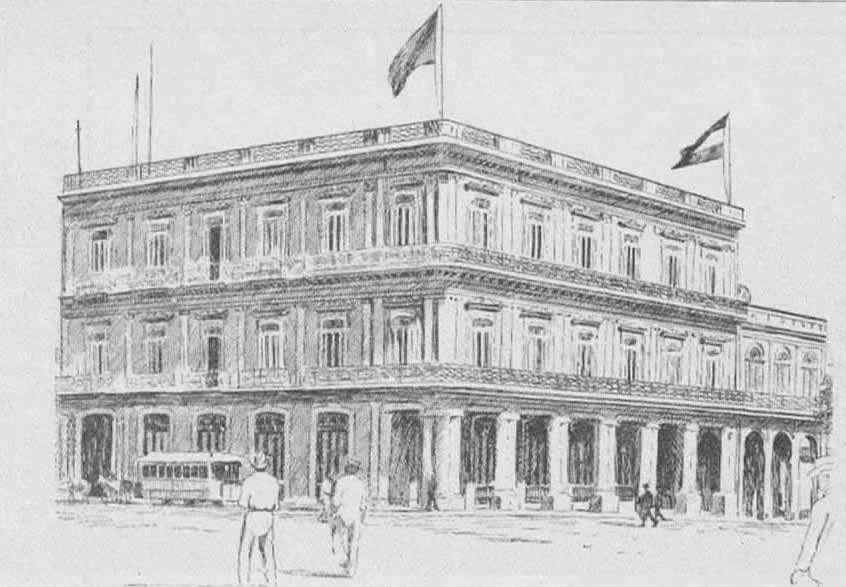 Drawing of the Club de los alemanes en La Habana by J.Herrings in 1899